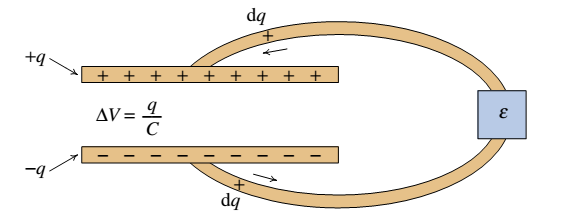 Passagem da carga de uma armadura para a outra num capacitor